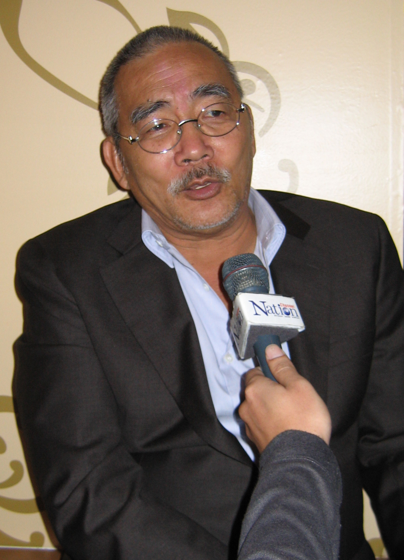 Film director, screenwriter and producer Chatrichalerm Yukol at the opening reception for the inaugural Phuket Film Festival at SF Cinema City in the Jungceylon shopping complex in Patong Beach, Phuket.